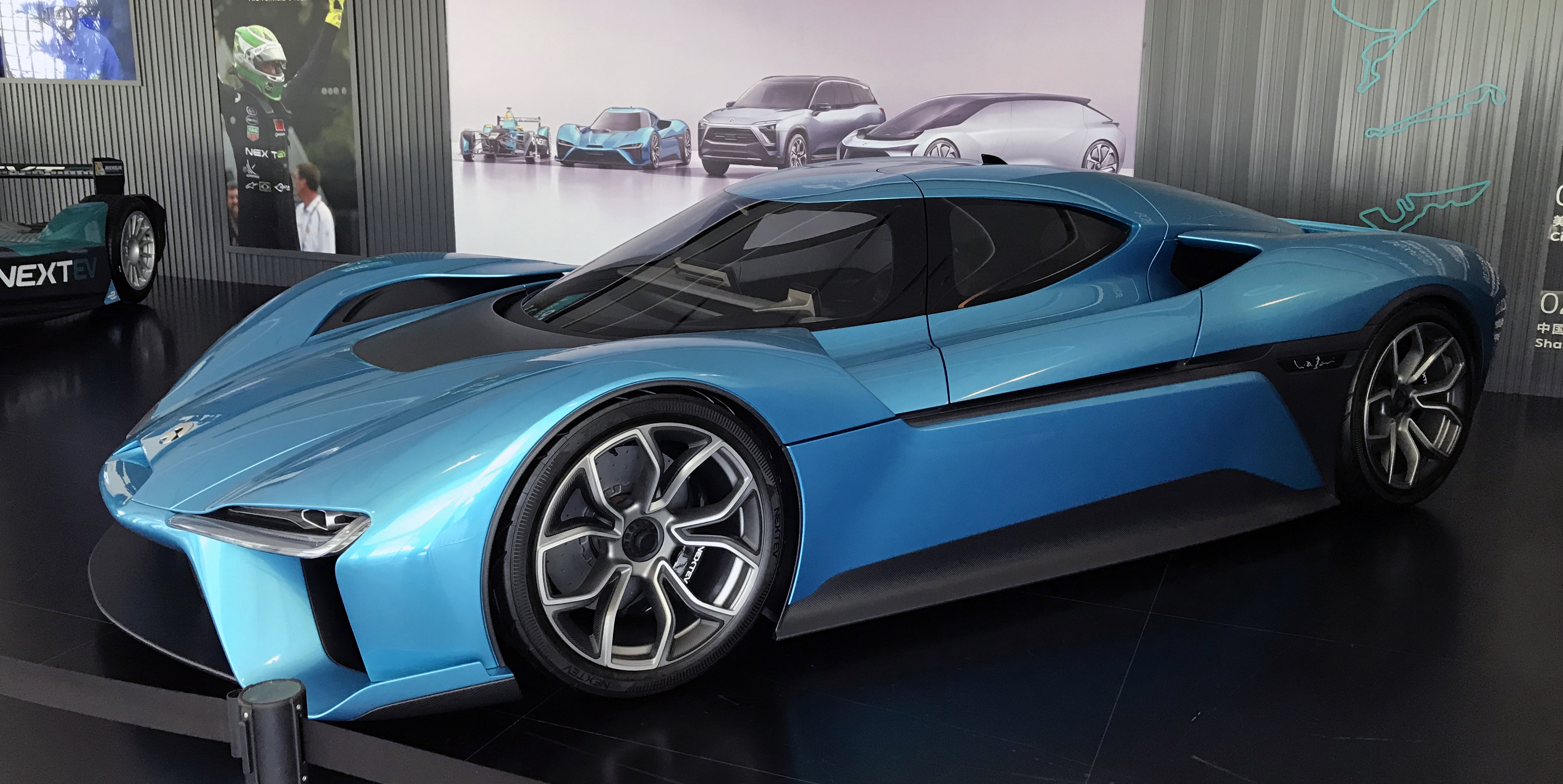 Nio EP9 on display at Nio's HQ in Shanghai.